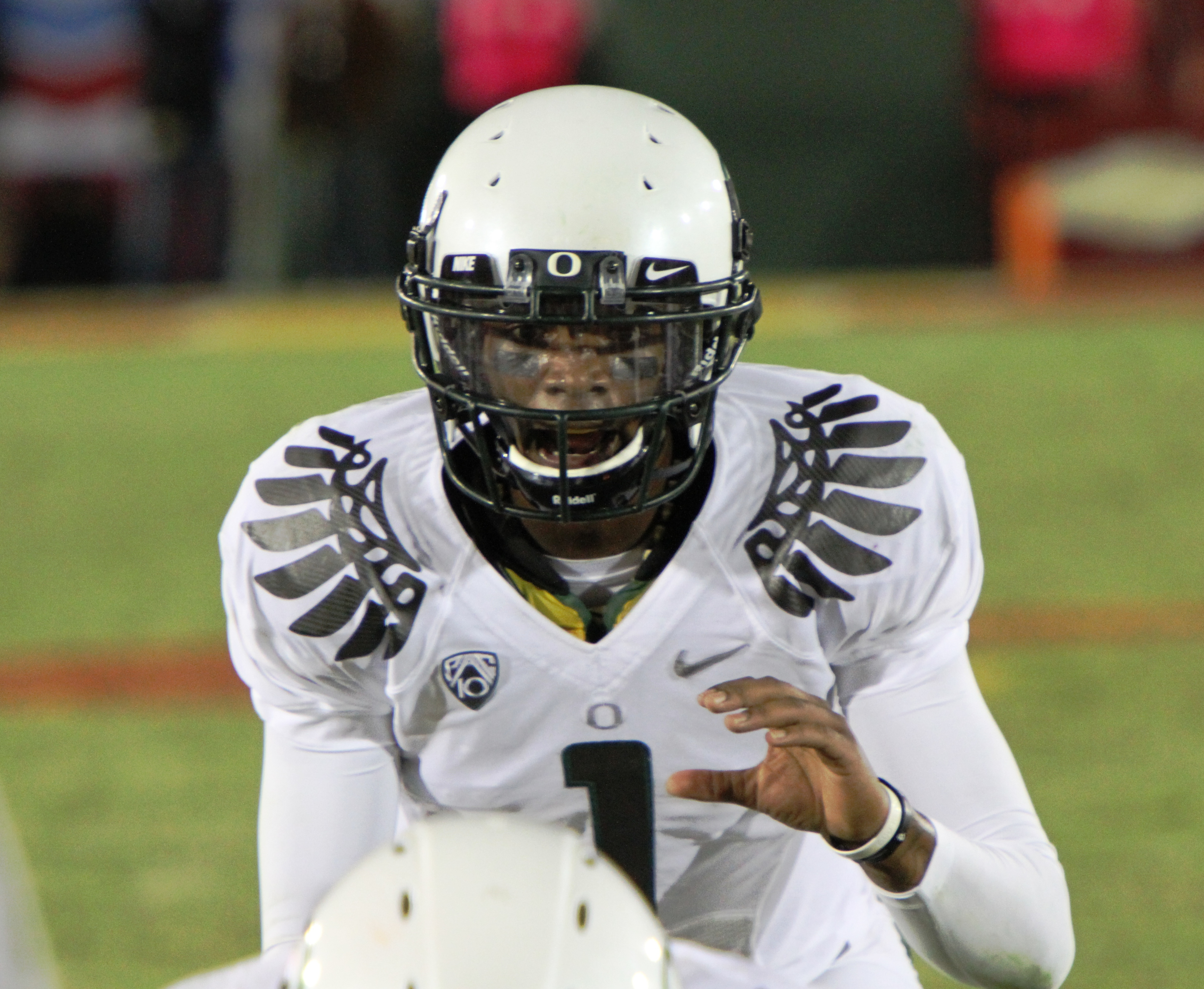 The Oregon Ducks beat the USC Trojans 53-32 at the Los Angeles Memorial Coliseum Saturday October 30, 2010. (Shotgun Spratling/Neon Tommy)